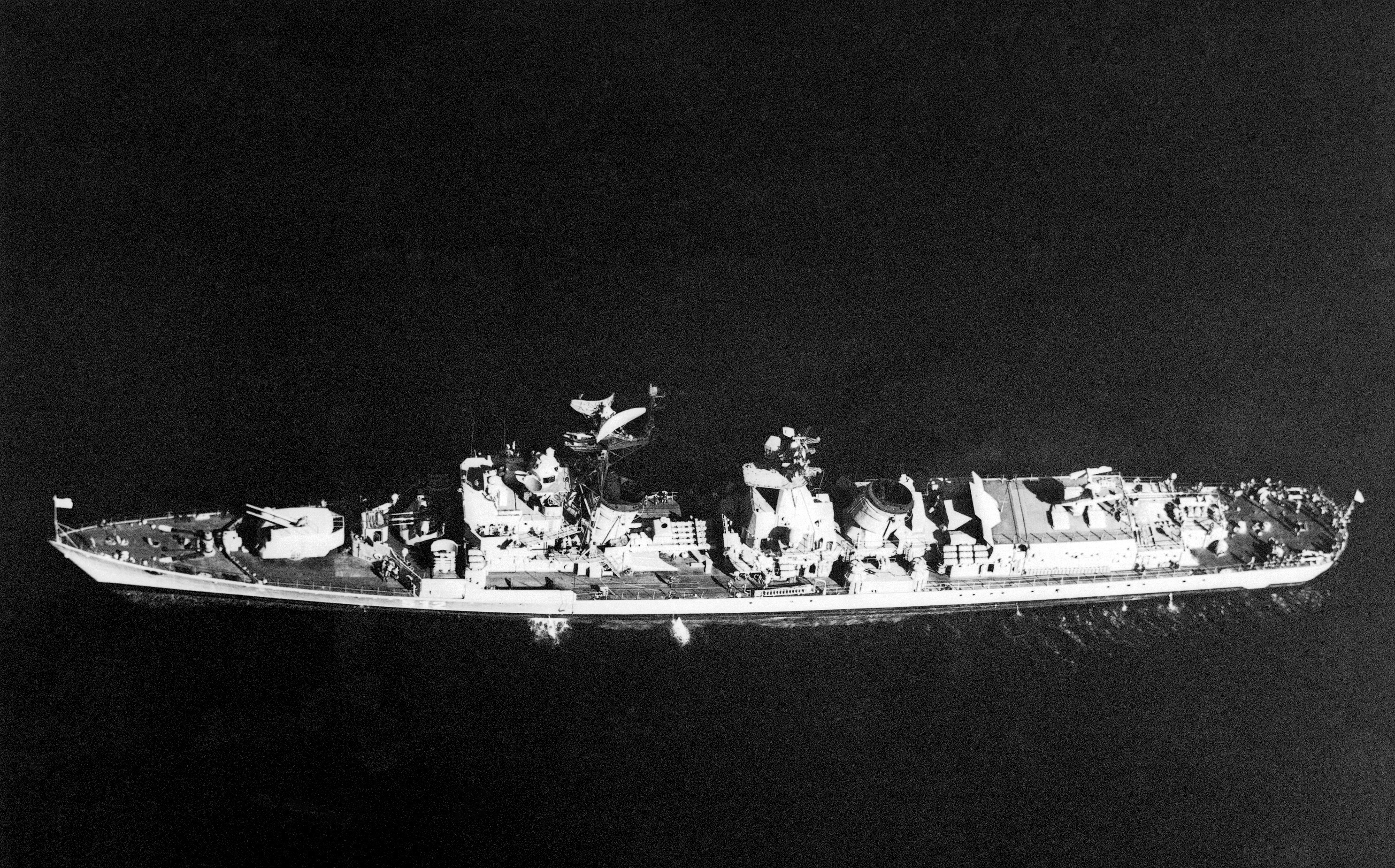 An elevated port beam view of the Soviet project 56A destroyer Soznatel'nyy (NATO - SAM Kotlin class) guided missile destroyer.